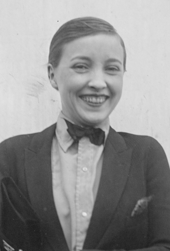 Bessie Love with Eton crop haircut